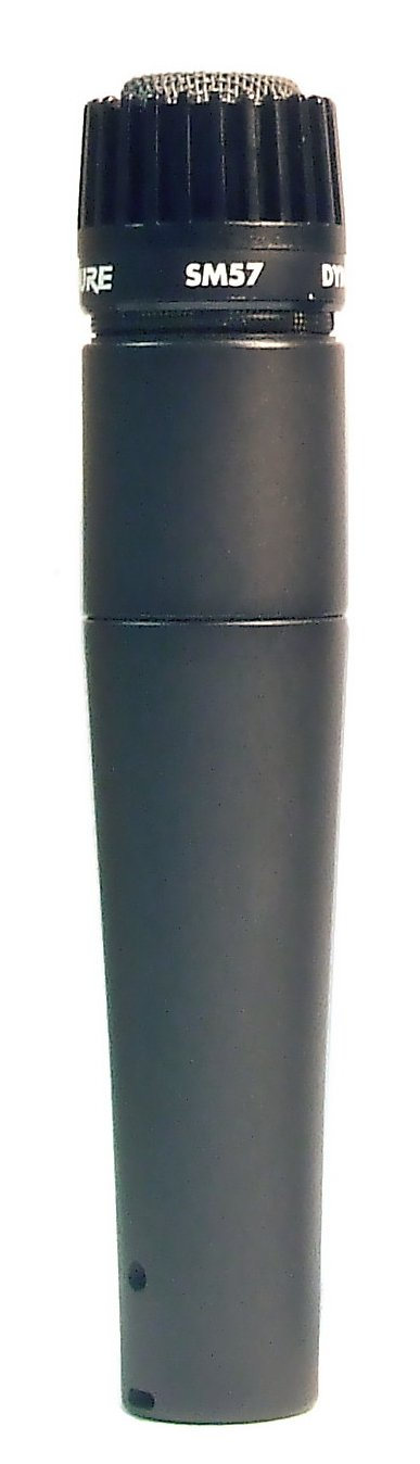 The Shure SM57 microphone.